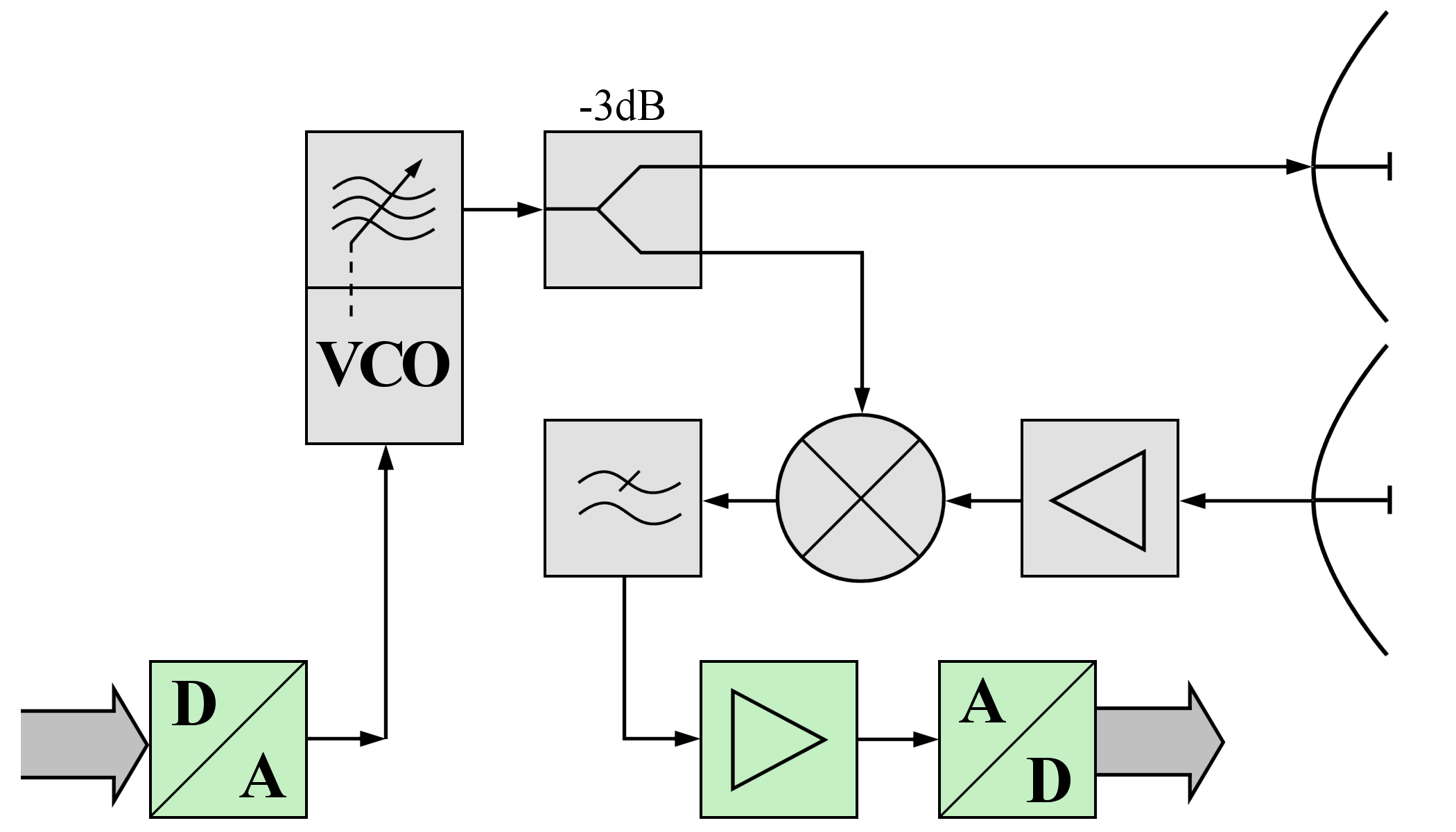 simple block diagram of a frequency modulated continuous wave radar (FMCW radar)